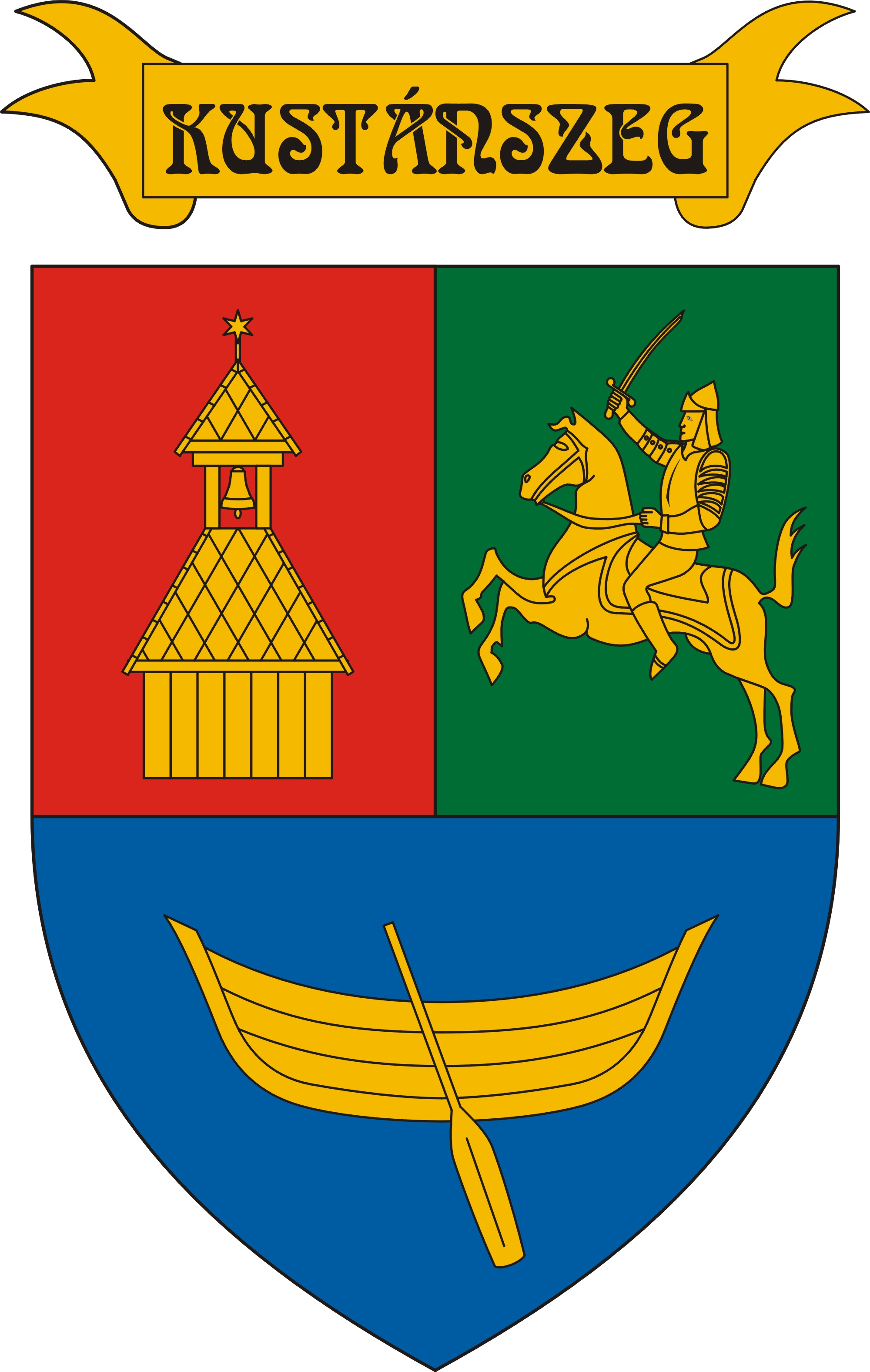 Coat of arms of Kustánszeg, Hungary